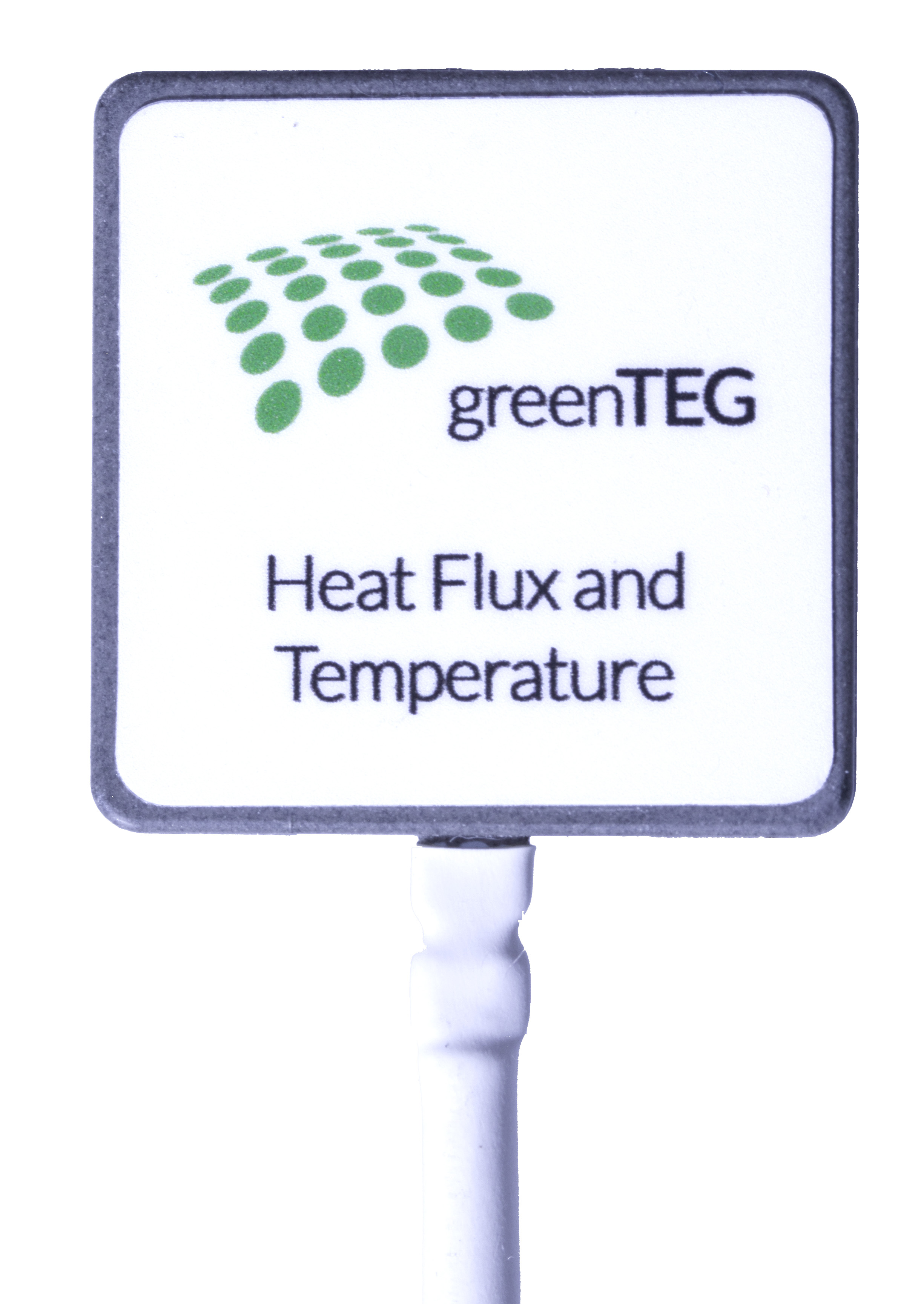 A sensor for simultaneous heat flux and temperature measurements